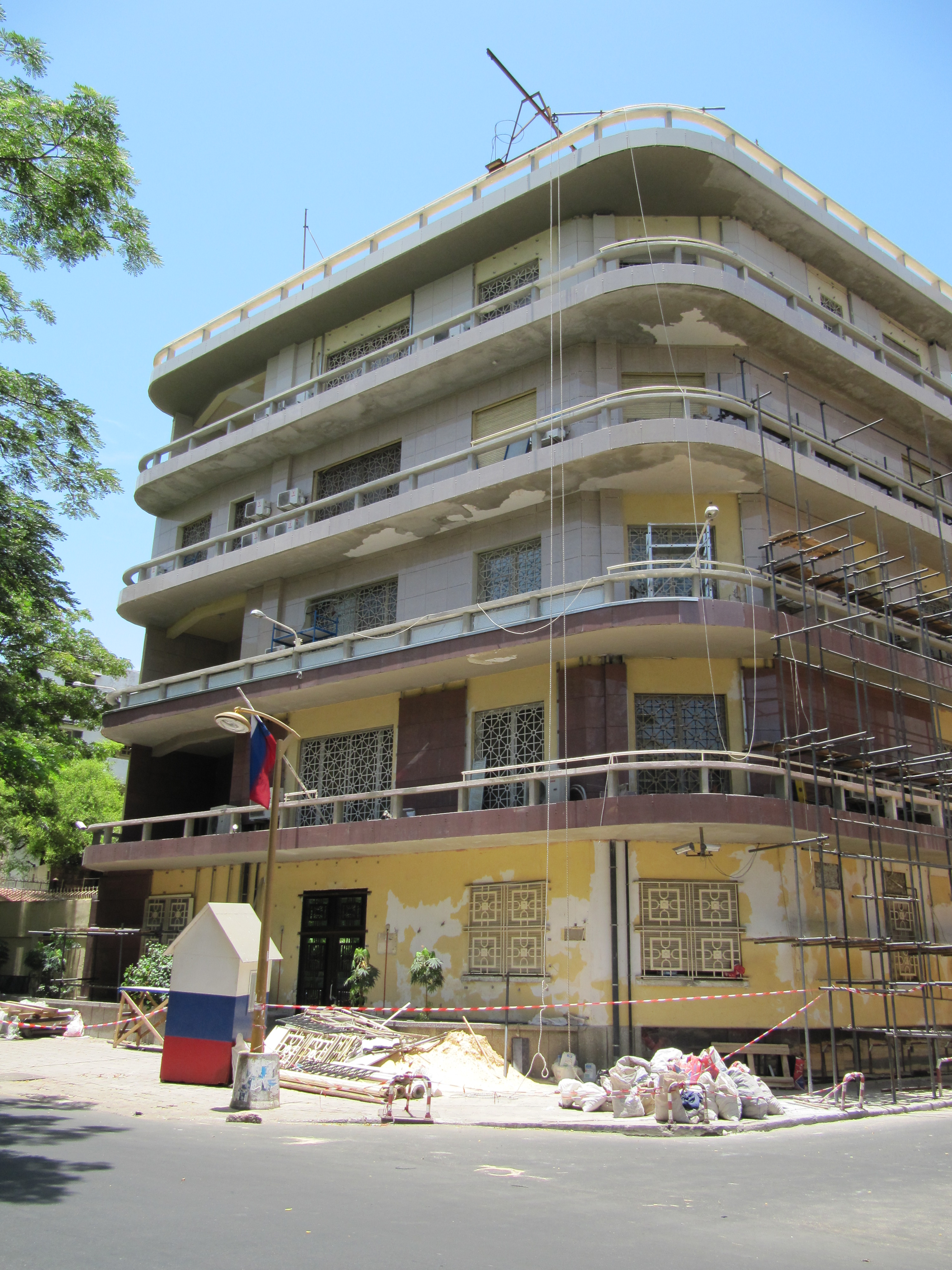 Russian embassy in Dakar, Senegal